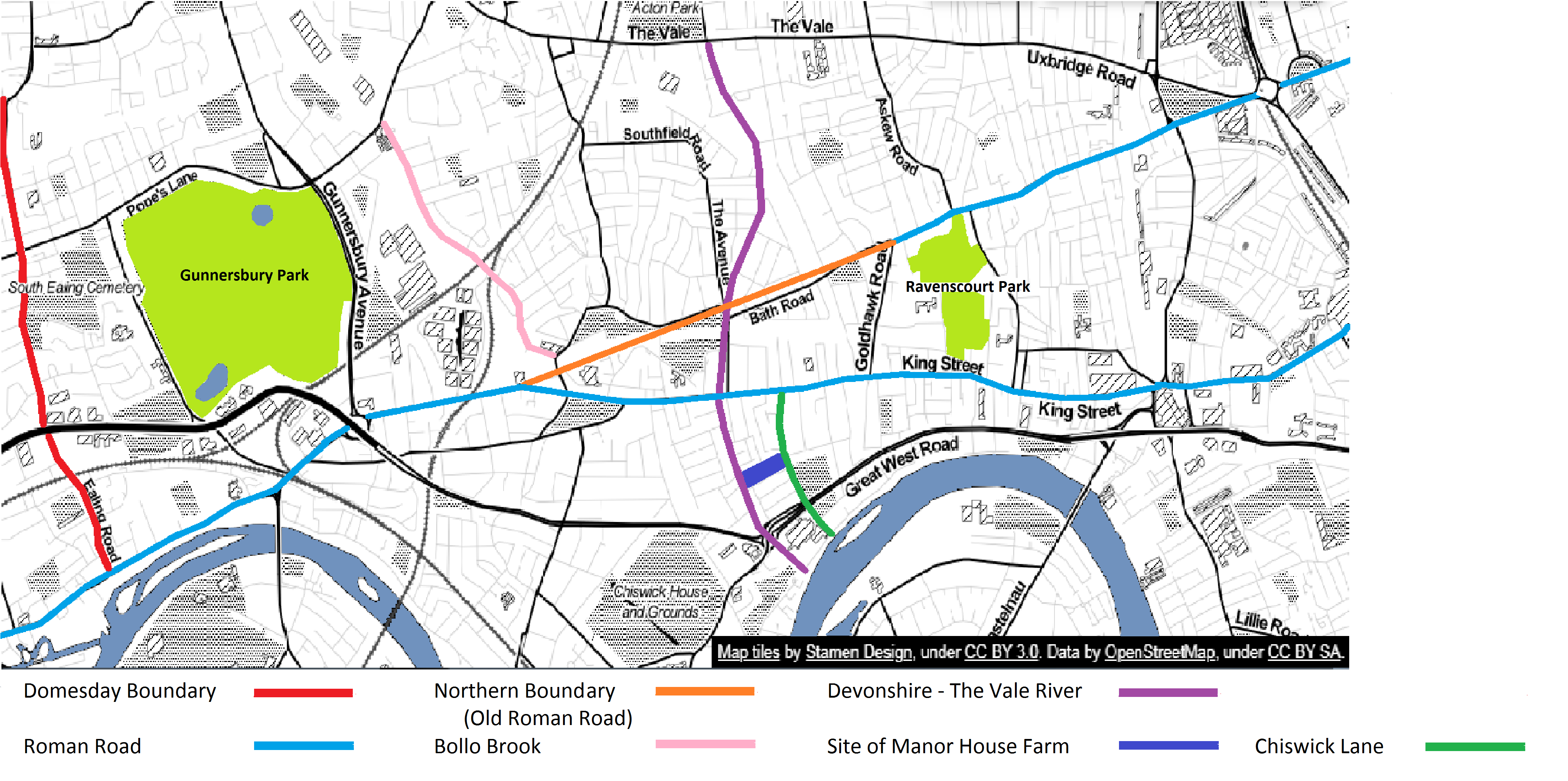 Current map with historical features added